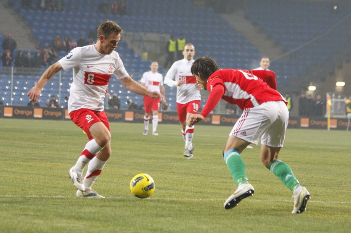 Polish football player Maciej Rybus